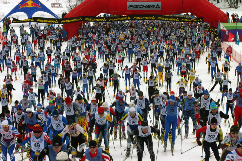 "Supersotna" ski marathon